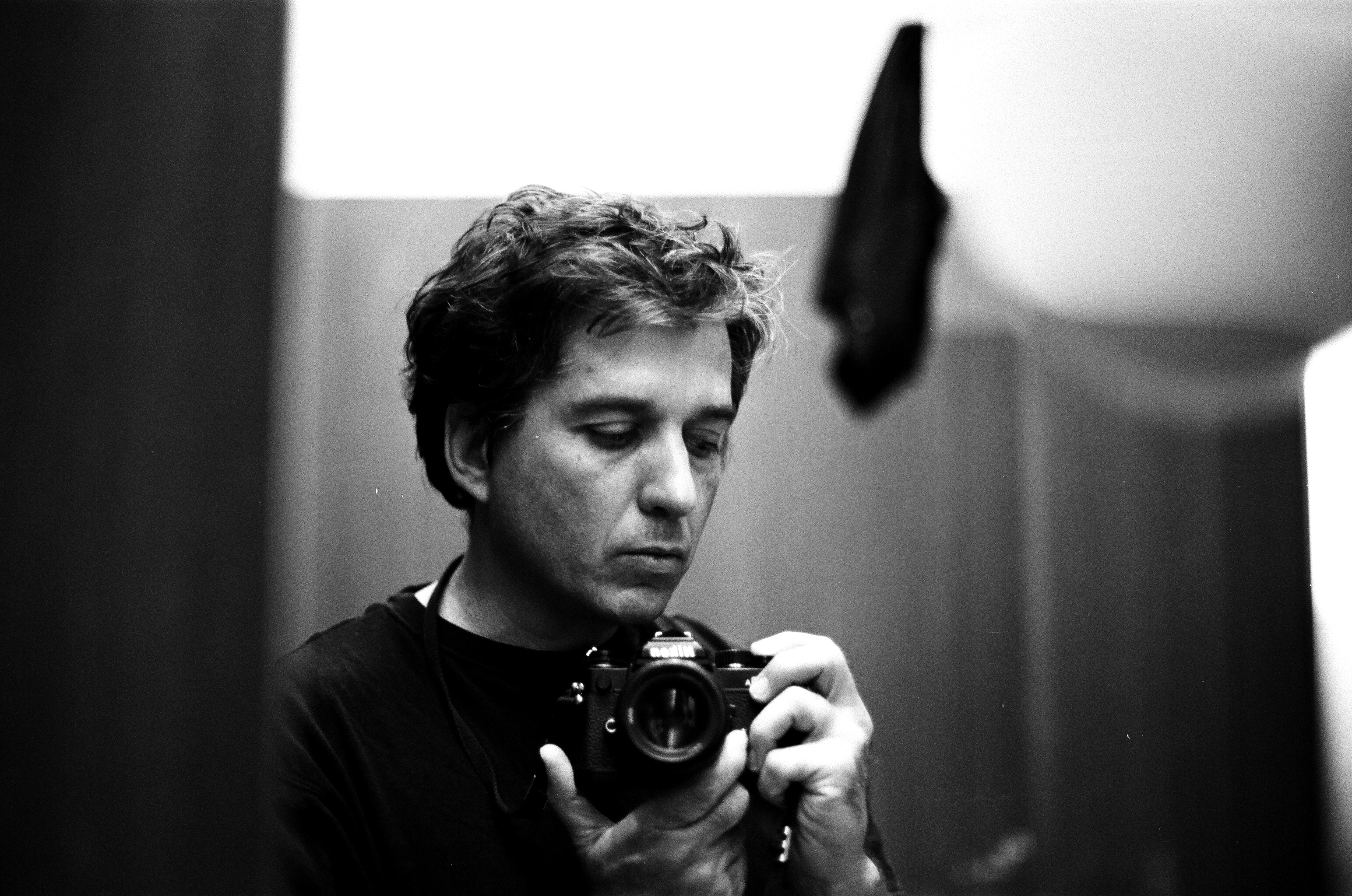 Jeremiah Hayes, 2012